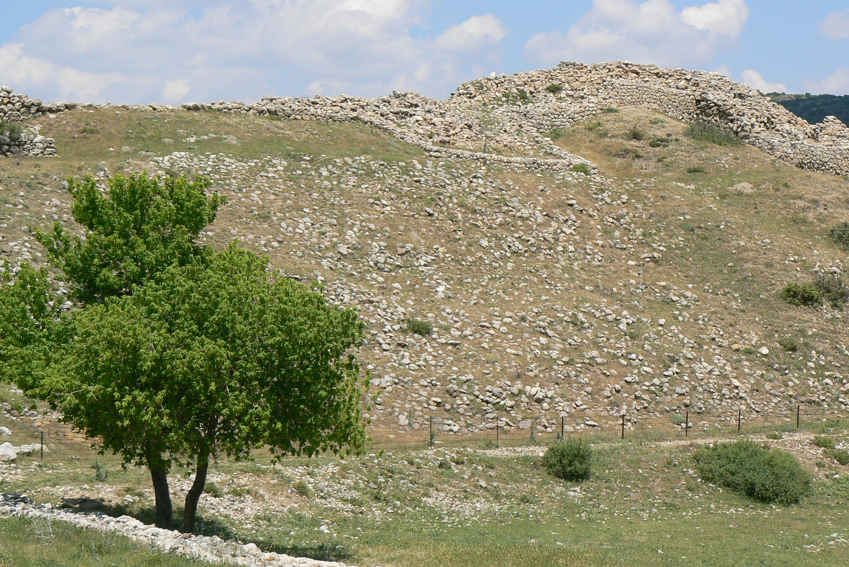 The Royal citadel of Büyükkale from south, Hattusa, Turkey